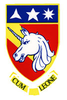 Emblem of the 359th Fighter Group.